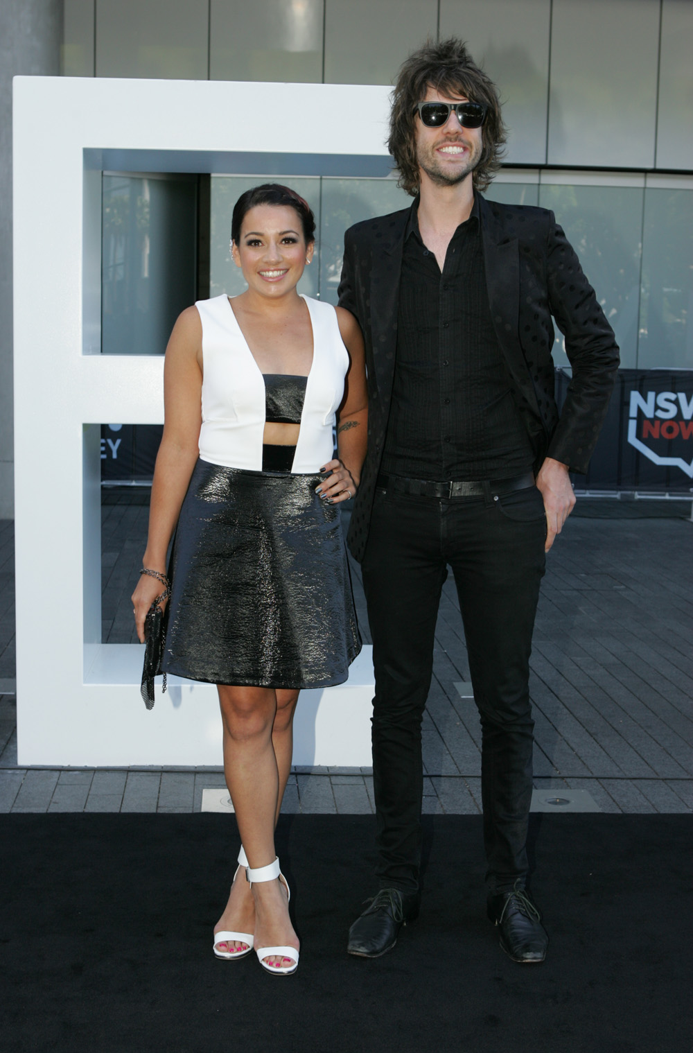 Maz Compton (left) and Dan Debuf from The Dan & Maz Show arrive at the 27th Annual ARIA Awards on December 1, 2013 in Sydney